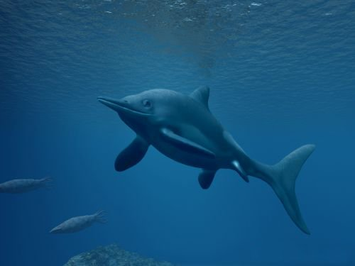 Acamptonectes densus restoration.